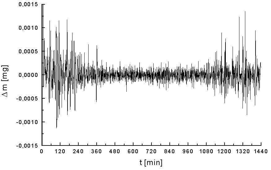 Noise of a TGA measurement (device in an inadapted environment): the theoretical model was subtracted from the measurement; the middle of the curve shows less noise, corresponding to a smaller surrounding human activity at night; from a oxidation measurement of B2 iron aluminide at 900 °C, Laboratoire d'étude des matériaux agressifs, Université de La Rochelle, 1999 keywords: thermogravimetic analysis, signal-to-noise ratio (SNR)